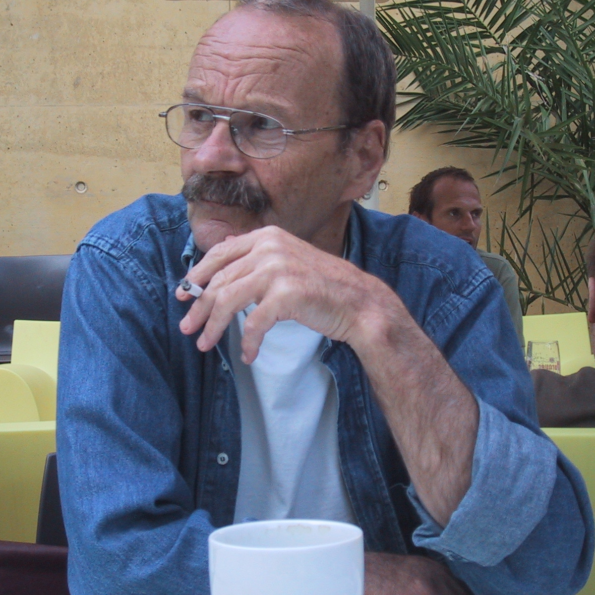 Alfred Paul Schmidt reads Peter Köck (Gangan Verlag's 20th anniversary at the Literaturhaus Graz, Austria, 30 June 2004).